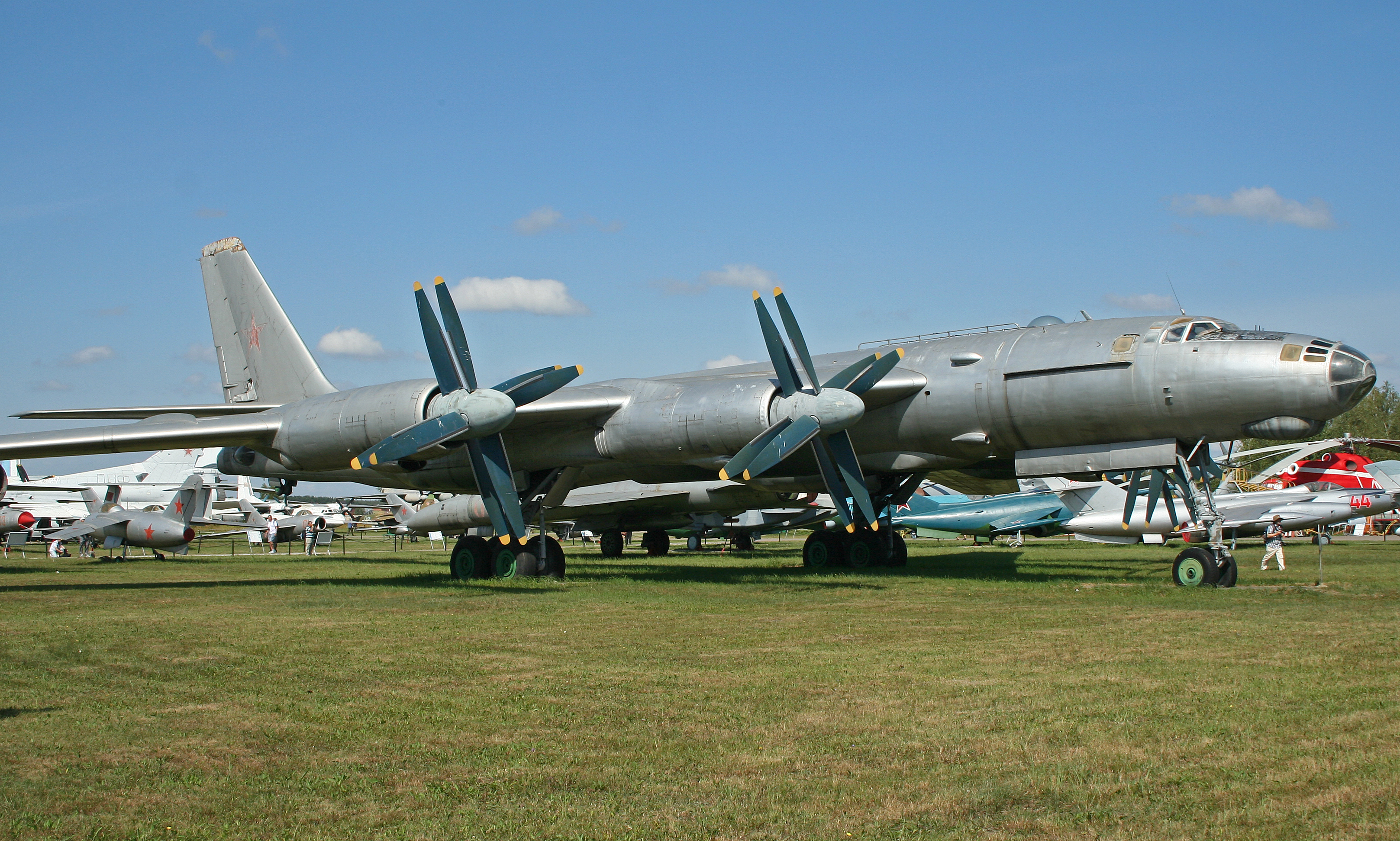 The 'N' model of the Tu-95 was a one-off conversion for dropping the projected Tsybin RS ramjet bomber. Built as a standard front-line aircraft in 1955, the 'N' conversion took place in 1957. After the project was cancelled, the 'Bear' continued to serve at Zhukovsky as a test-bed until 1959, when it flew to Monino for the museum. In the past it has been marked as both '4807' and '45' on the fin. Considering that it has probably spent the last 52 years sat outside, it is in remarkable condition! c/n 5800101. Russian Air Force Museum. Monino, Russia. 13-8-2012